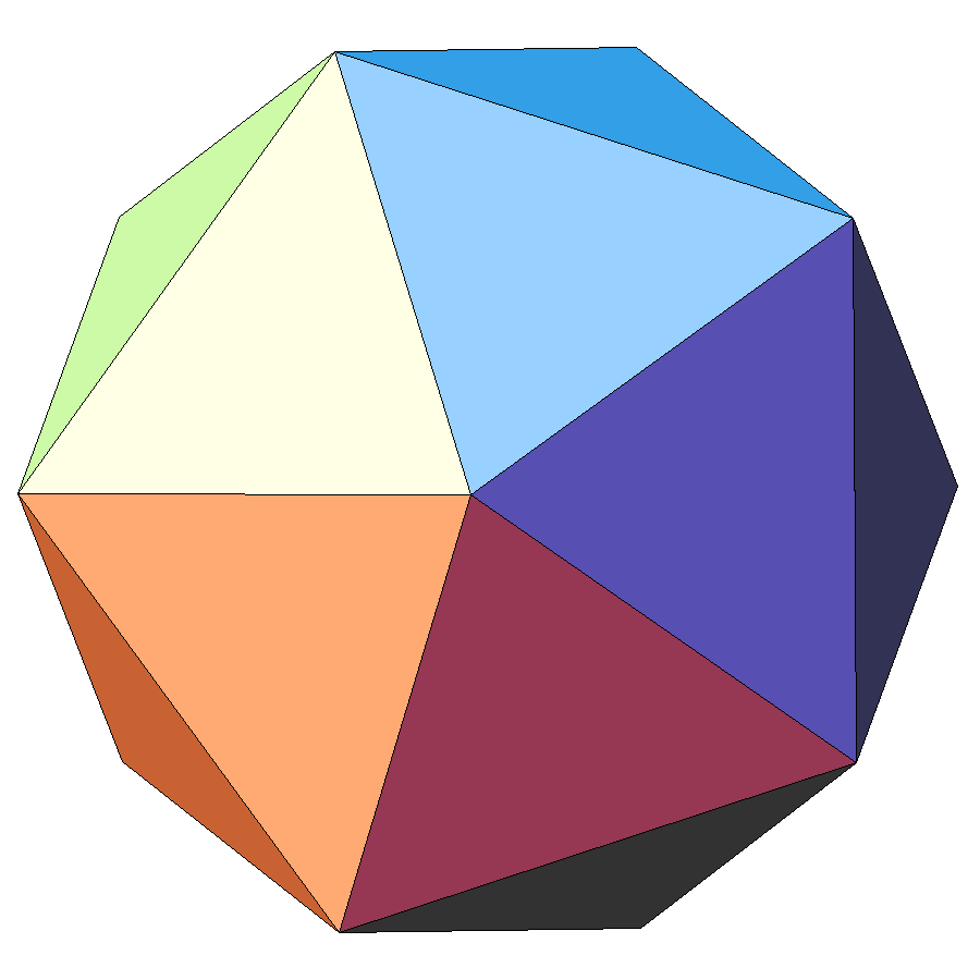 Zeroth stellation of icosahedron